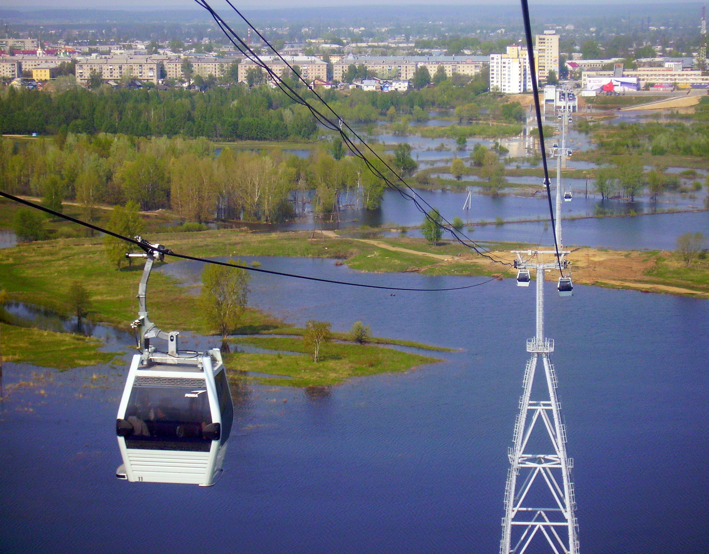 Nizhny Novgorod aerial tramway. Over lowland near Bor Town